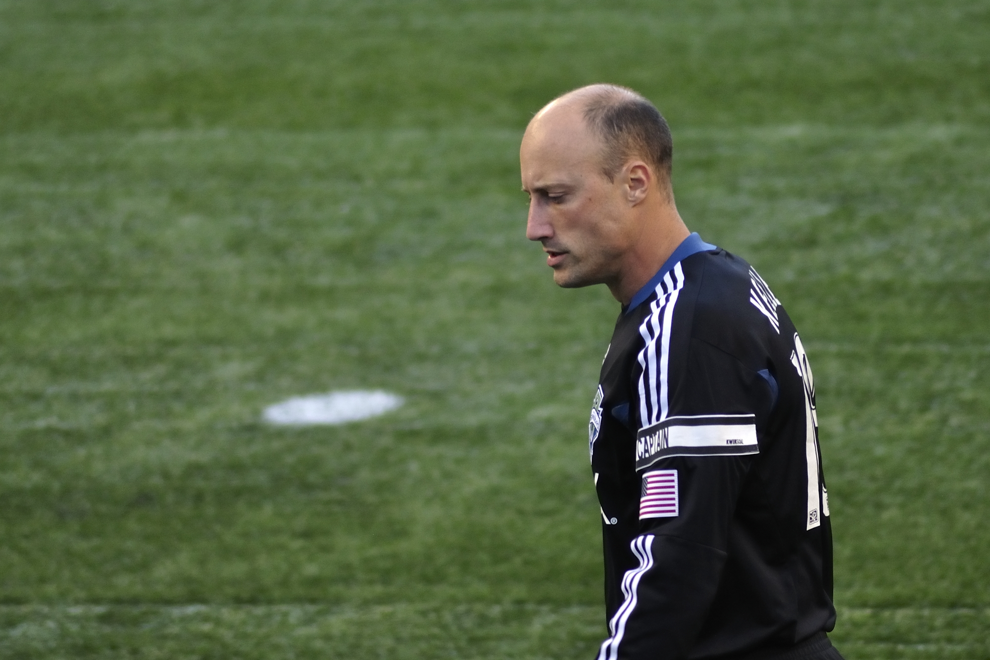 Kasey Keller of the Seattle Sounders